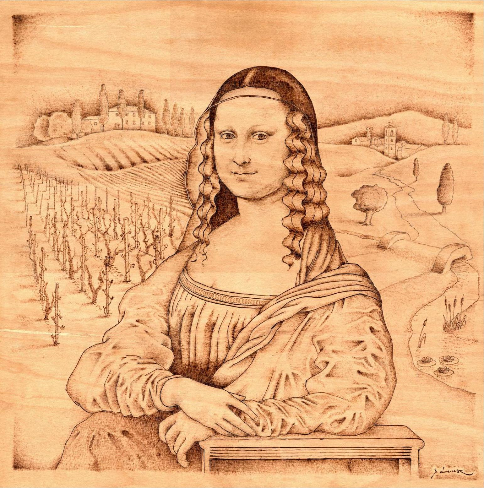 The Toscan Mona Lisa, pyrography created by Párvusz.